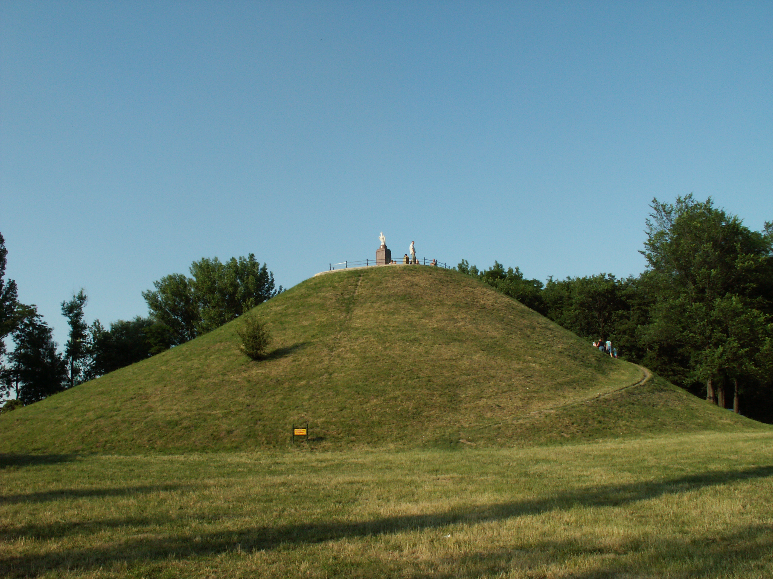 author macieias